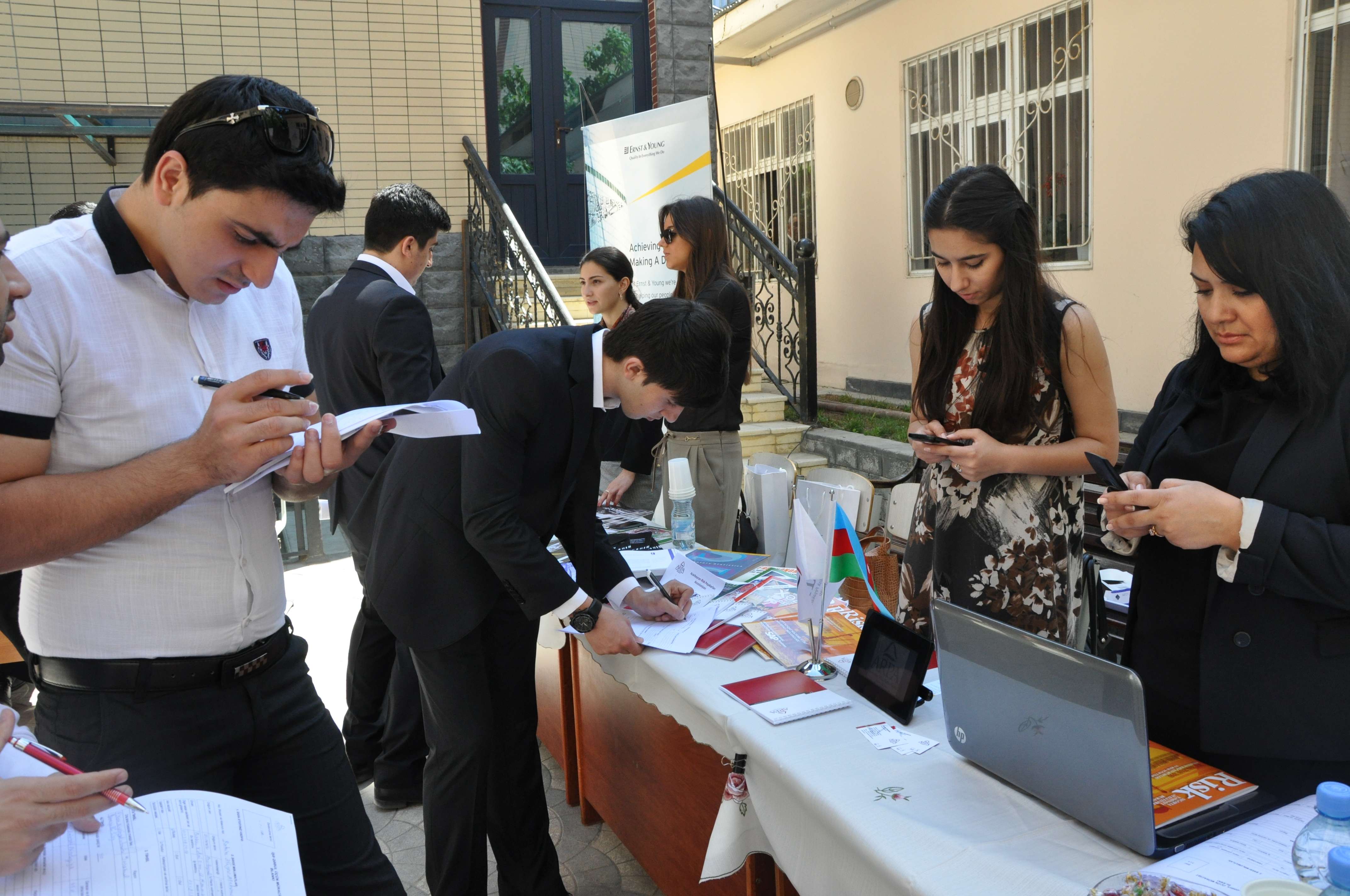 Career Development Center holds career fair in Khazar courtyard